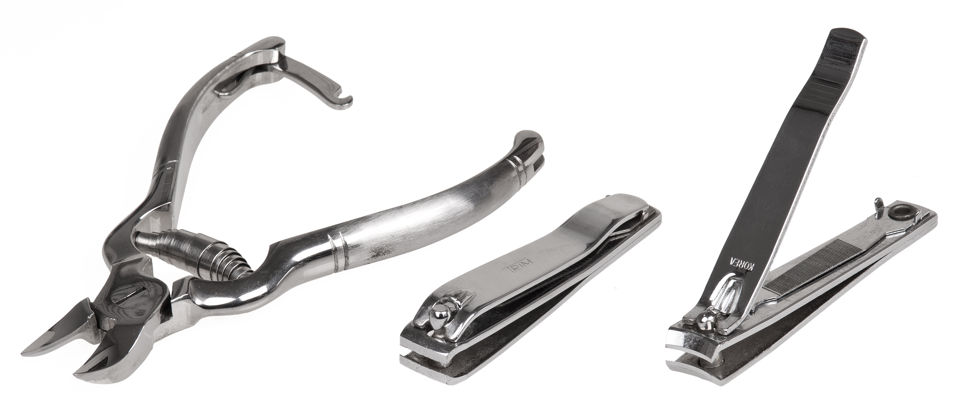 Three types of nail clippers, used to cut finger- and toenails as part of grooming. The left is in the plier style, while the centre and right cutters are in the compound lever style. Like most clippers on the market, these three are made of stainless steel.